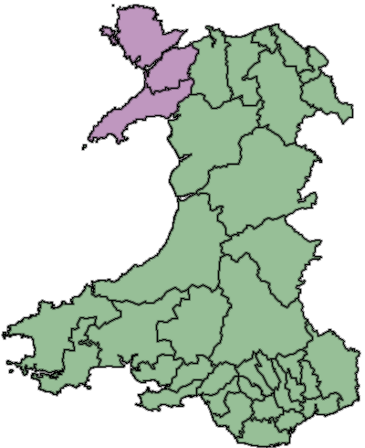 West Gwynedd Area of Search